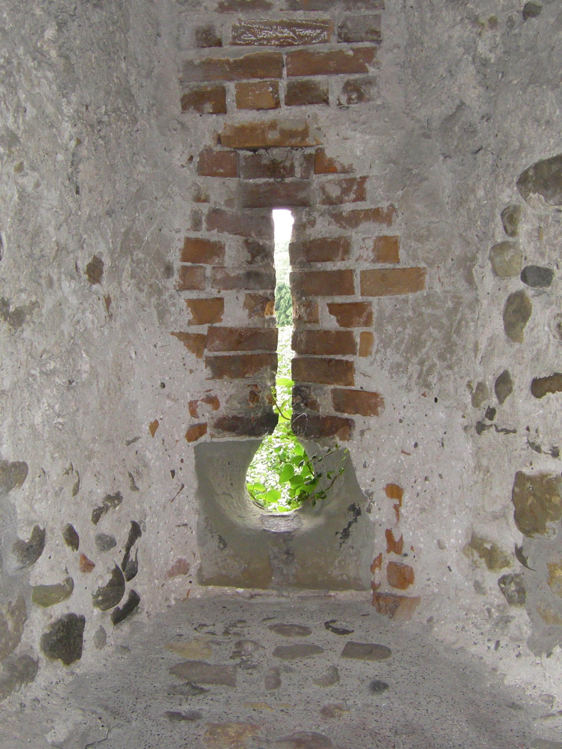 An embrasure in a tower of the city walls of Murten, Switzerland.